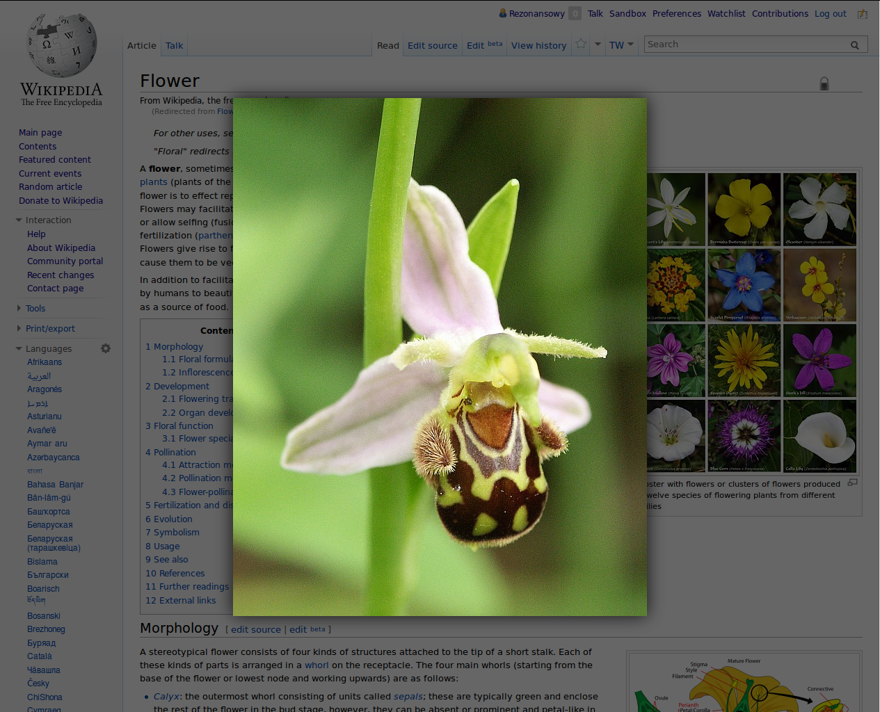 Screenshot of User:Rezonansowy/SimpleLightbox wiki tool.